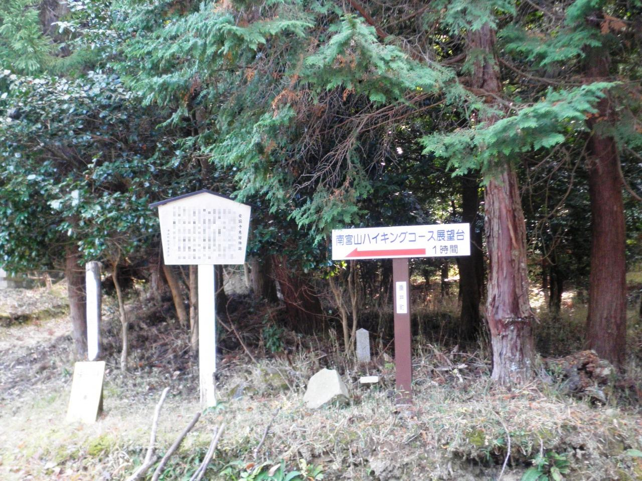 Site of Ankokuji Ekei's position in the Battle of Sekigahara located in Tarui, Gifu.